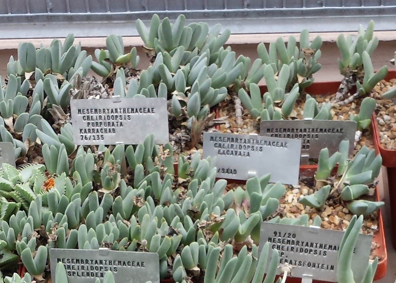 Cheiridopsis species in Stellenbosch nursery. South Africa.